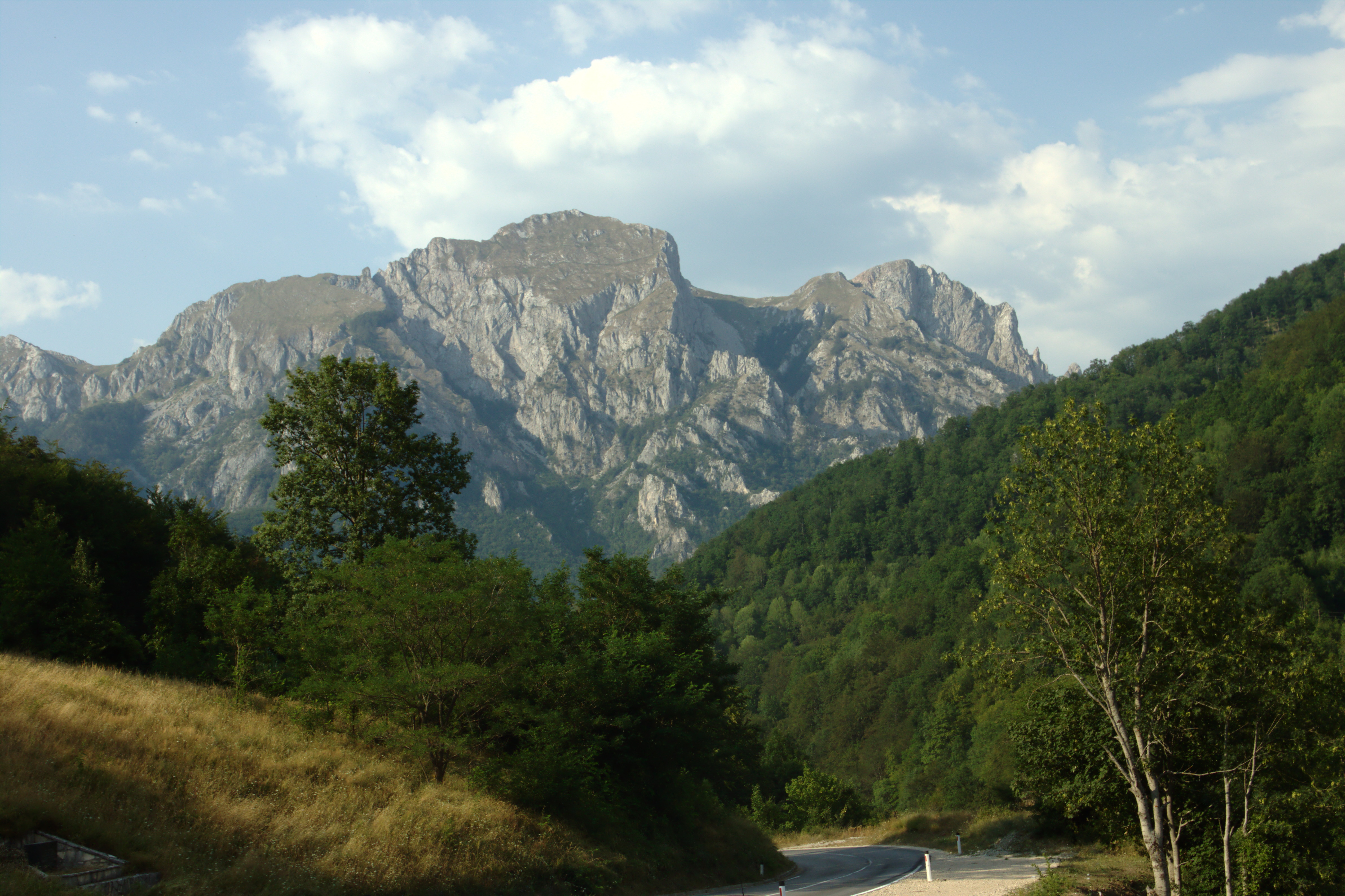 Volujak mountain range seen from south, Republic of Srpska, BiH